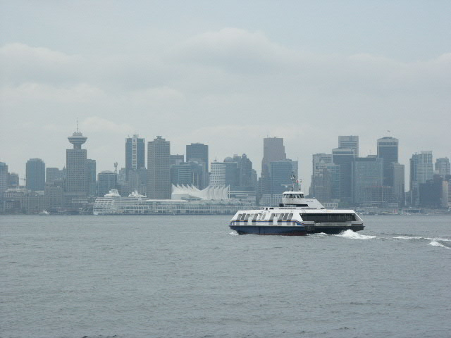 The SeaBus heading towards downtown Vancouver. Photographer: camerafiend